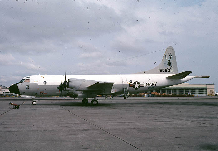 VP-92 (LY 3) P-3A (BuNo 150504) circa August 1976. Photographed by Michael Grove. Repository: San Diego Air and Space Museum Archive